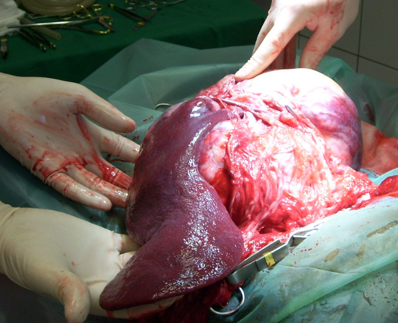 Hemangiosarcoma of the spleen of a dog, OP Situs